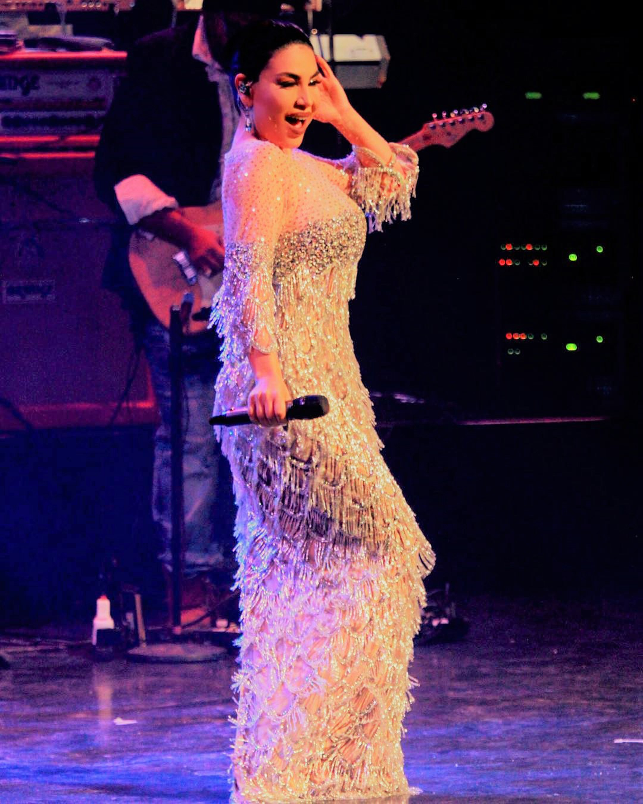 GPS Hide. Aryana Sayeed, Afghan singer and songwriter.